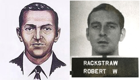 Images are originally in public domain on Wikimedia Commons. D.B Cooper image ( and Robert Rackstraw image ( Licensing for each image is on the individual page linked above. This is a comparison of both named suspect in D.B. Cooper hijacking and composite sketch of actual suspect from FBI.